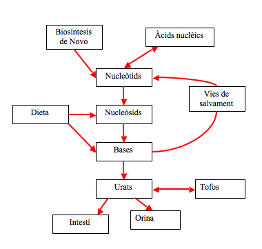 uric acid metabolism